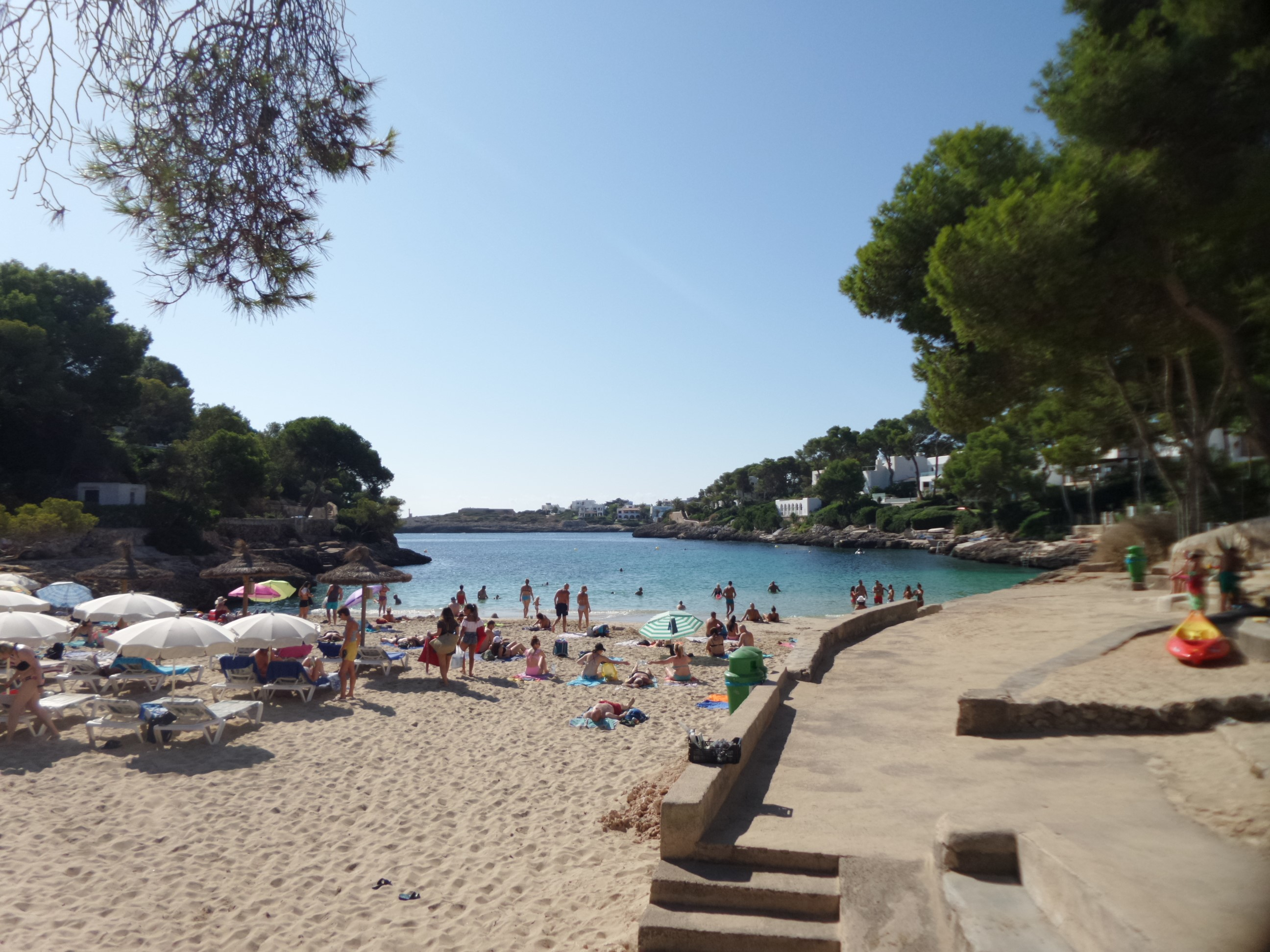 Cala d'Or (Bay, Beach)